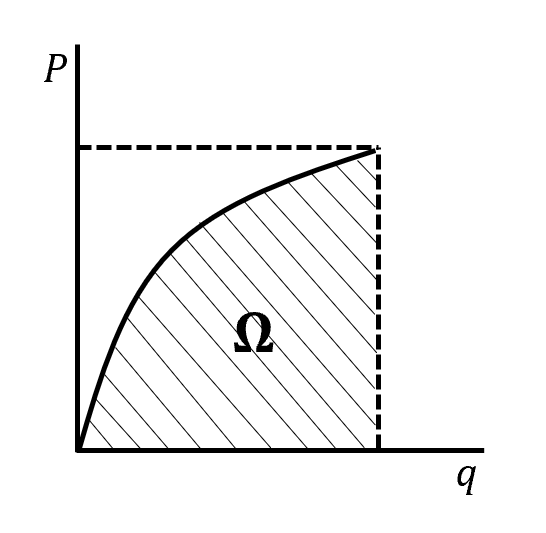 The shaded area of the P-q plot indicates the strain energy.